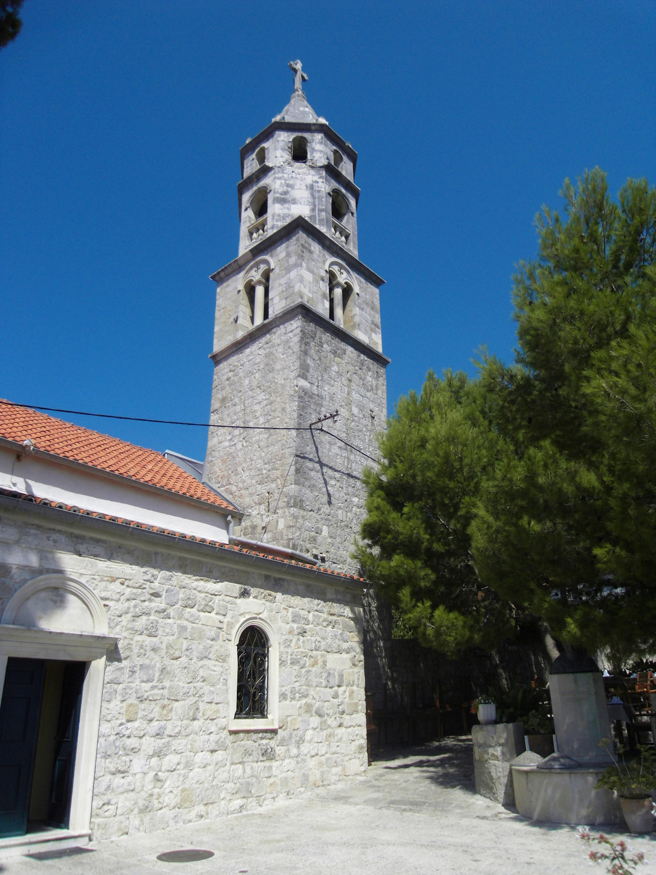 Monastery of Our Lady The Snow, Cavtat